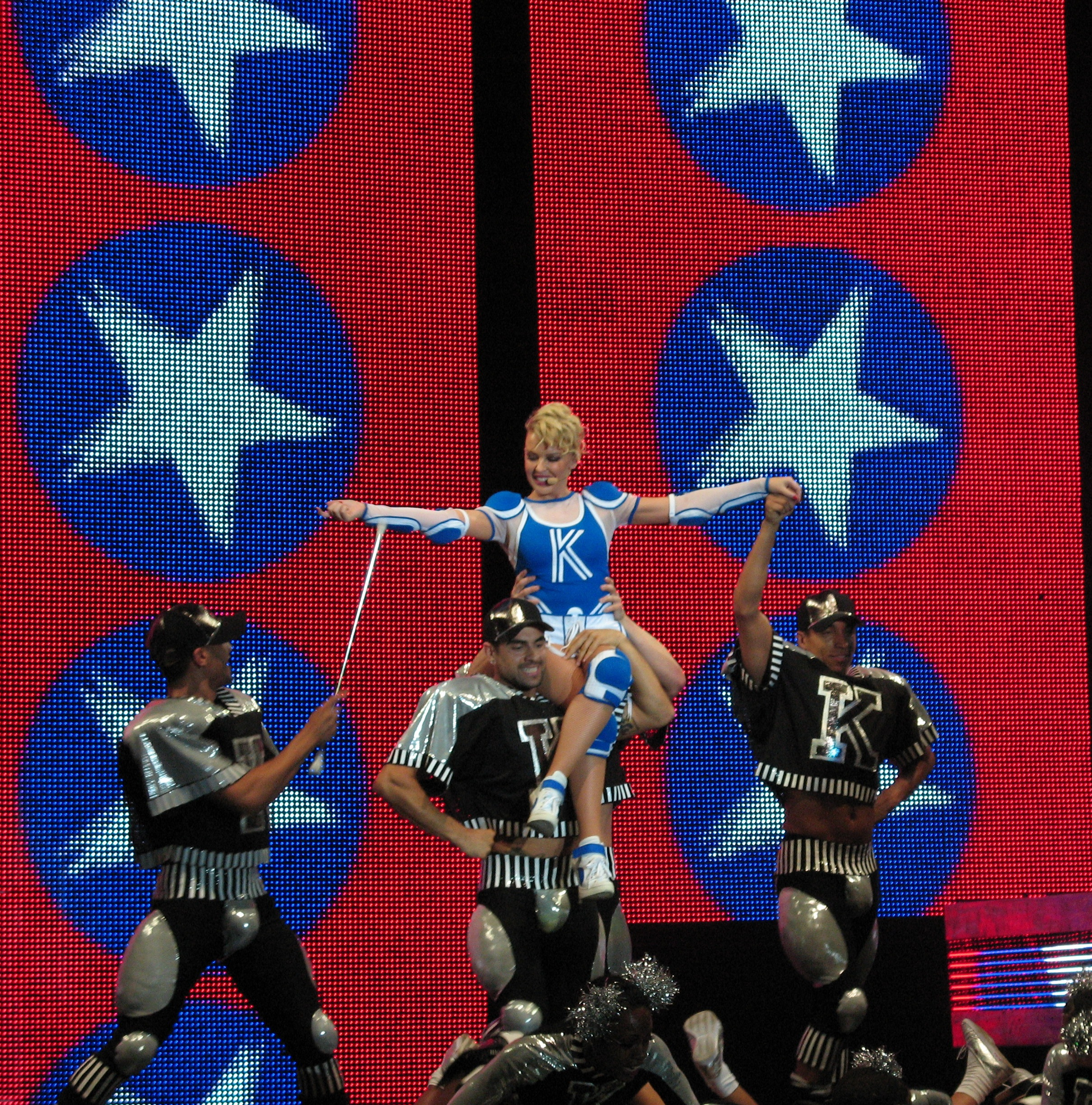 Scene of Kylie Minogue's concert at Lokomotiv Stadium, Sofia, Bulgaria. Part of KYLIEX2008 tour.